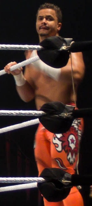 Primo at a WWE Raw house show in London on November 11, 2011